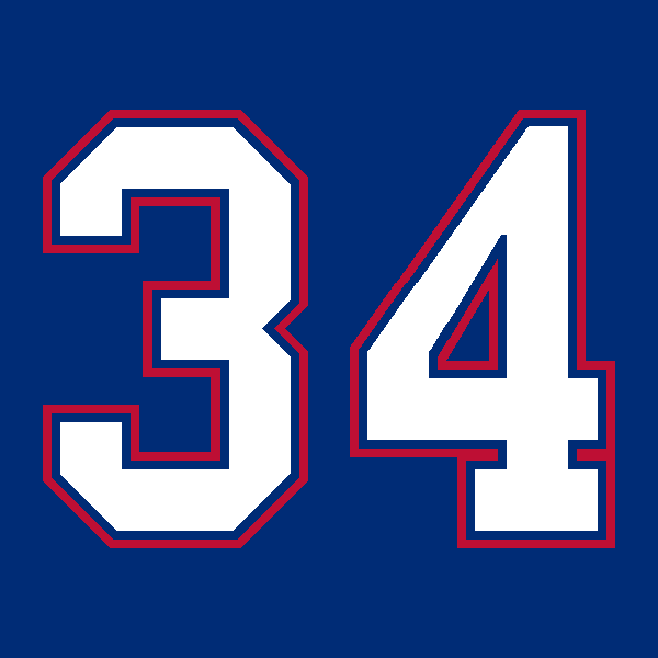 The number "34", retired for Nolan Ryan by the Texas Rangers.